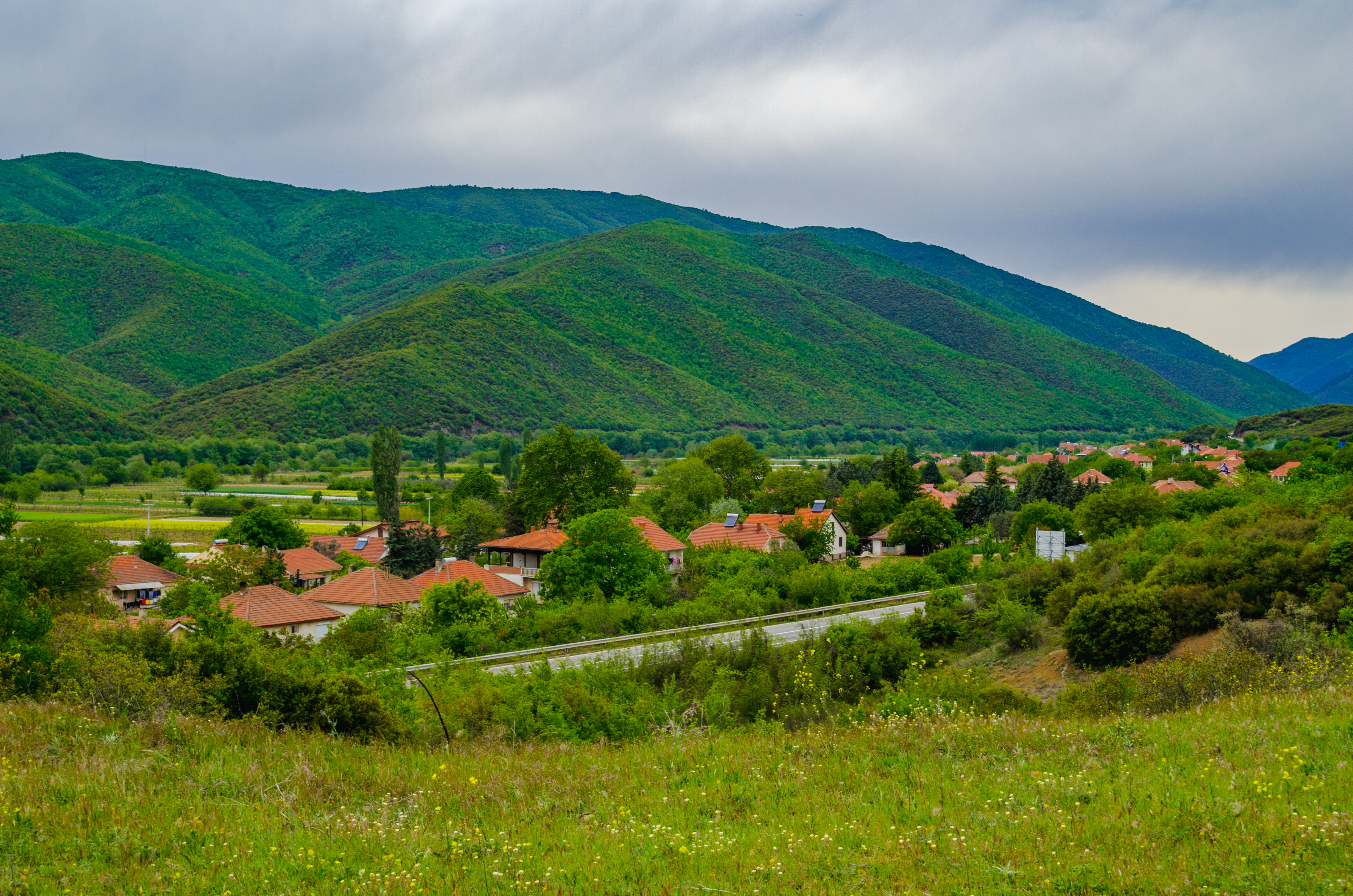 Panoramic view of the village Udovo